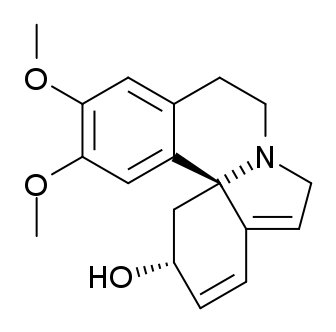 Structure of erythravine